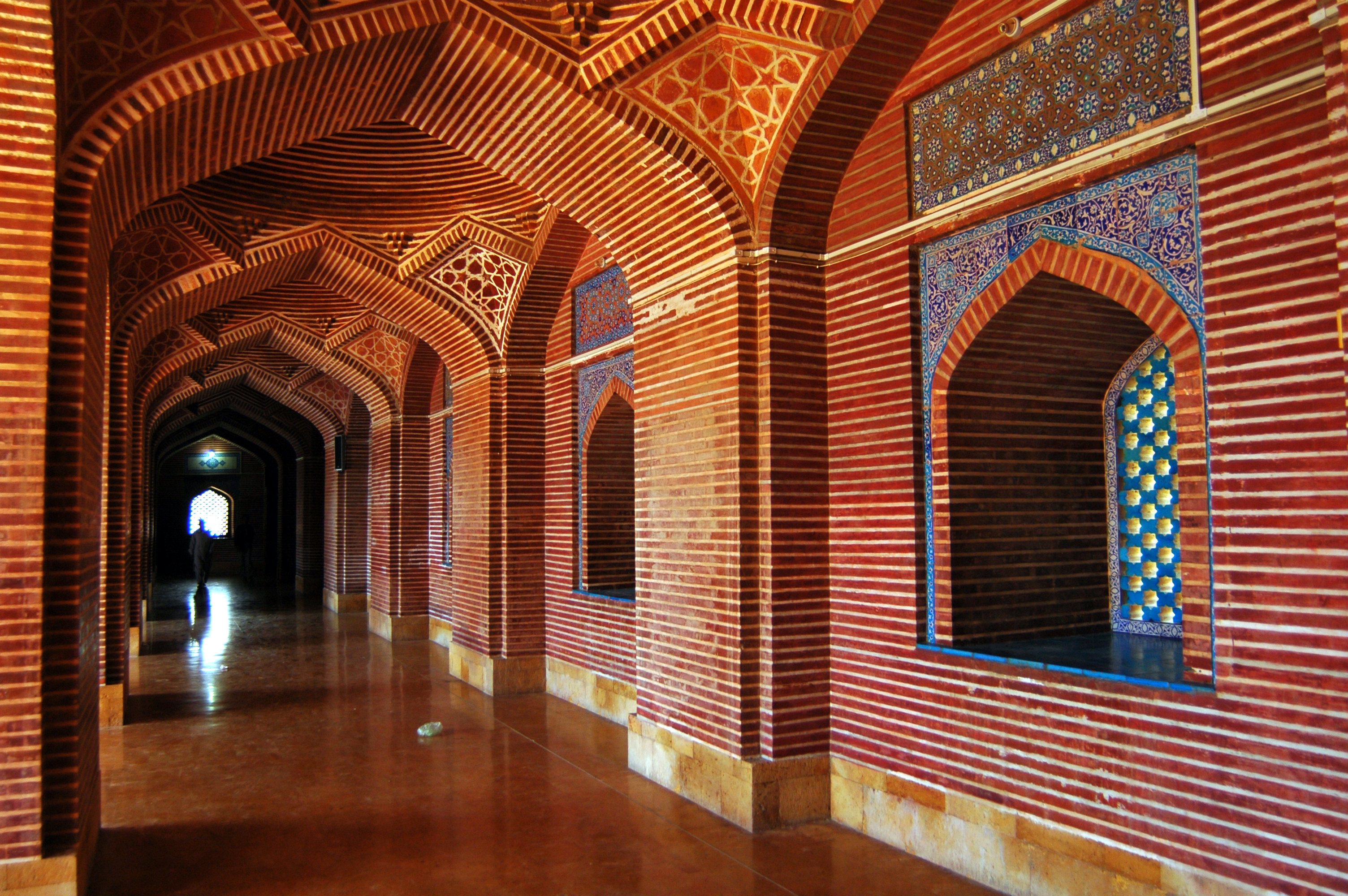 Shah Jahan Mosque, Thatta This is a photo of a monument in Pakistan identified as the SD-90